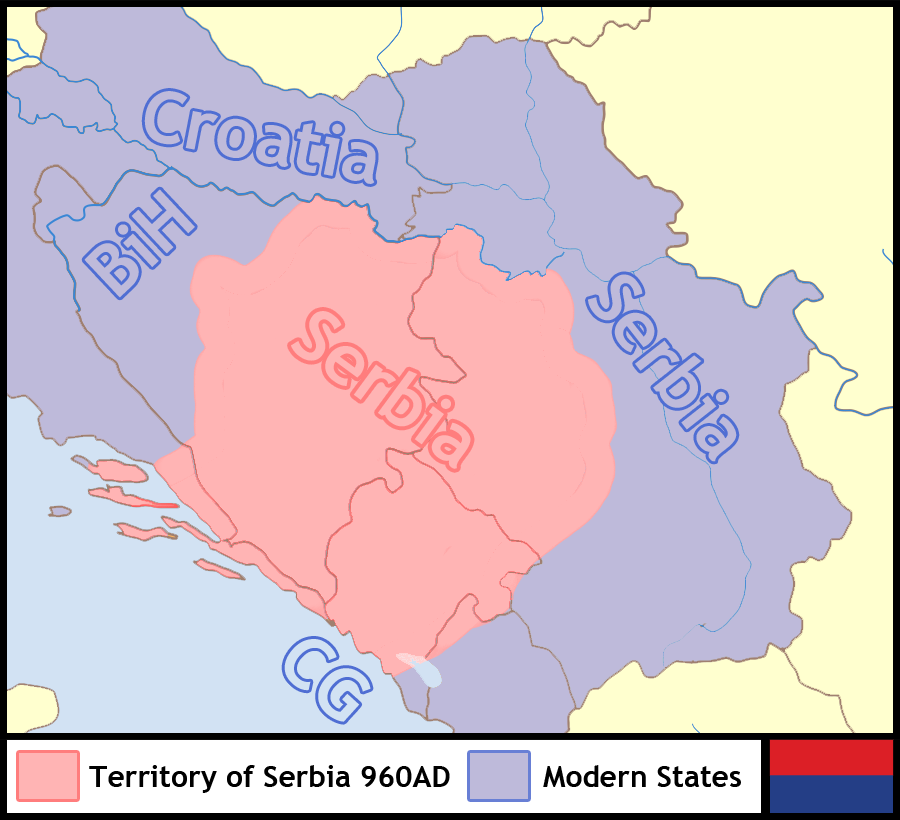 Serbia 960AD